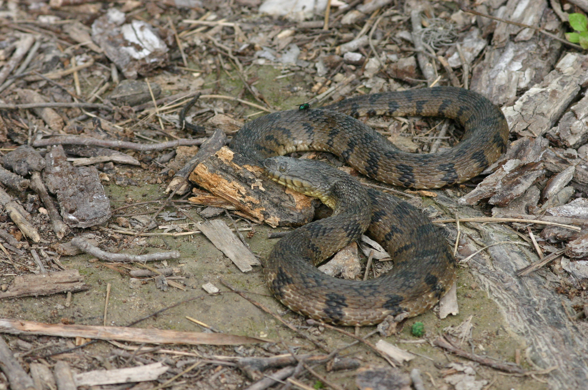 Blotched water snake, Nerodia erythrogaster transversa. Note that the side blotches alternate with the middle ones. A green bottle fly rests on the snake.